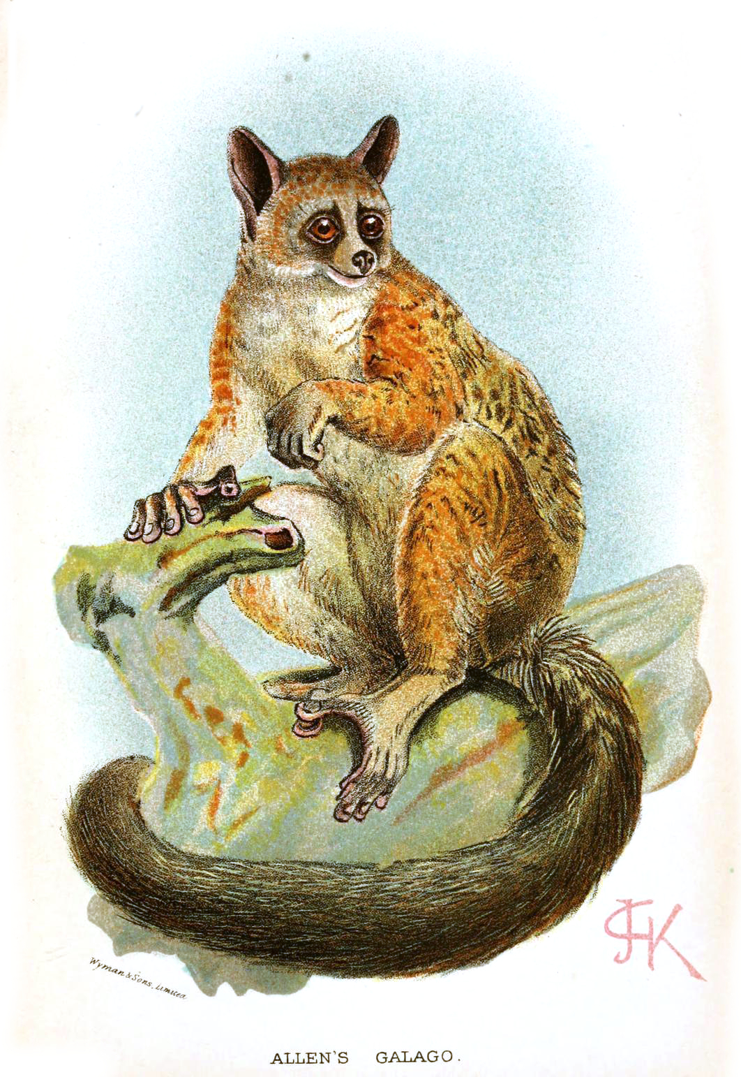 Naturalists Library, A Handbook to the Primates by Henry Forbes (1894).